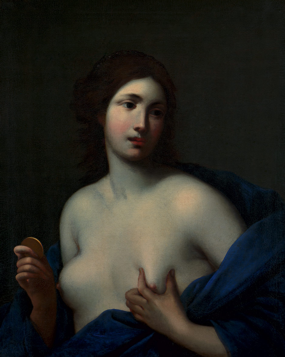 Lais (Allegory of Love for Sale) oil on canvasmedium QS:P186,Q296955;P186,Q12321255,P518,Q861259 77 x 62.5 cm